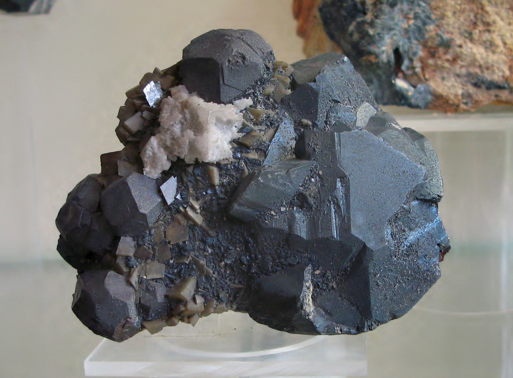 Bournonite - Locality: Neudorf, Harz, Germany - Exposed in the Mineralogical Museum, Bonn, Germany